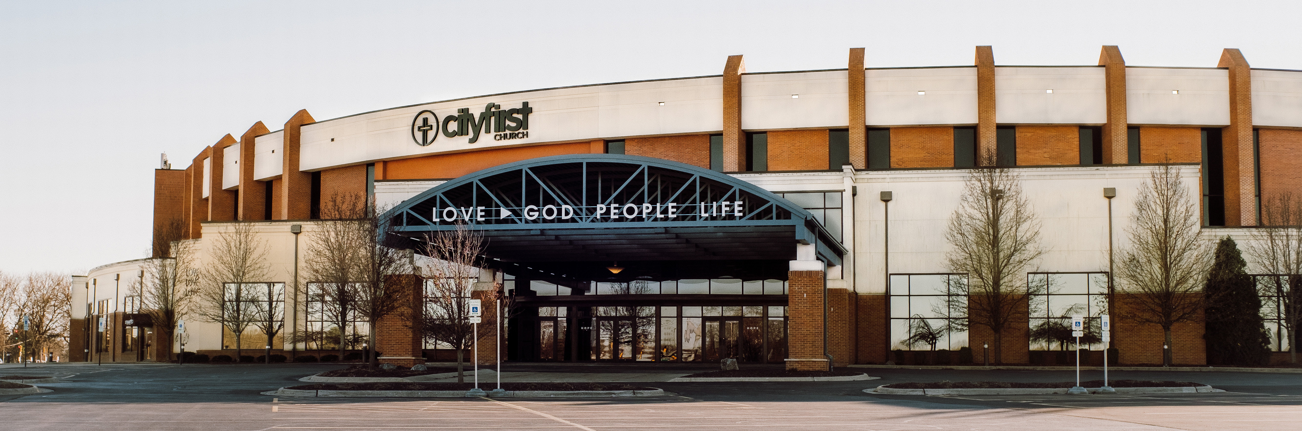 Cropped version of the City First Church Spring Creek campus photo.